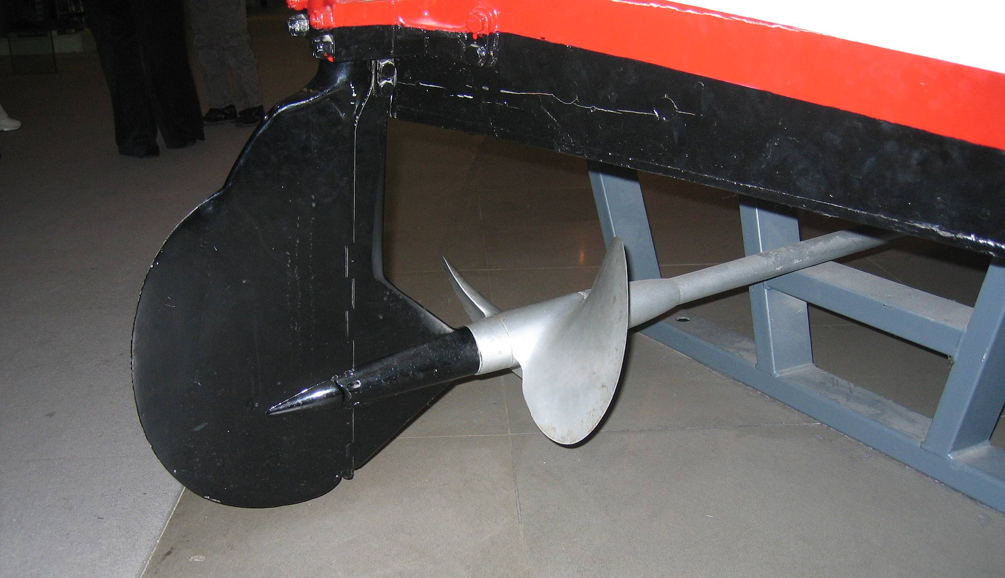 Propellor and rudder of Miss England I. Located at the Science Museum, London